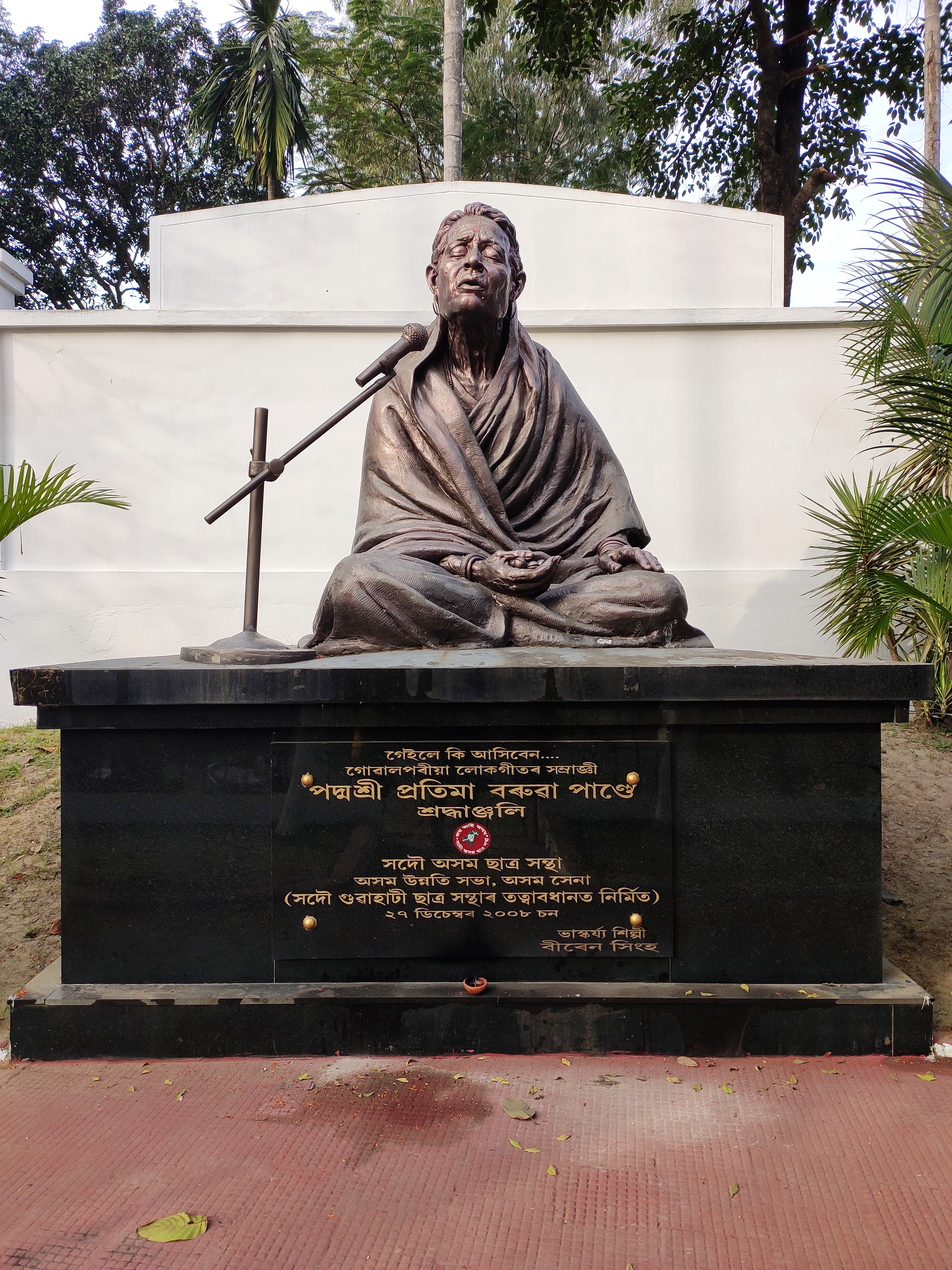 Statue of noted Assamese singer Pratima Pandey Barua at Chanmari, Guwahati.